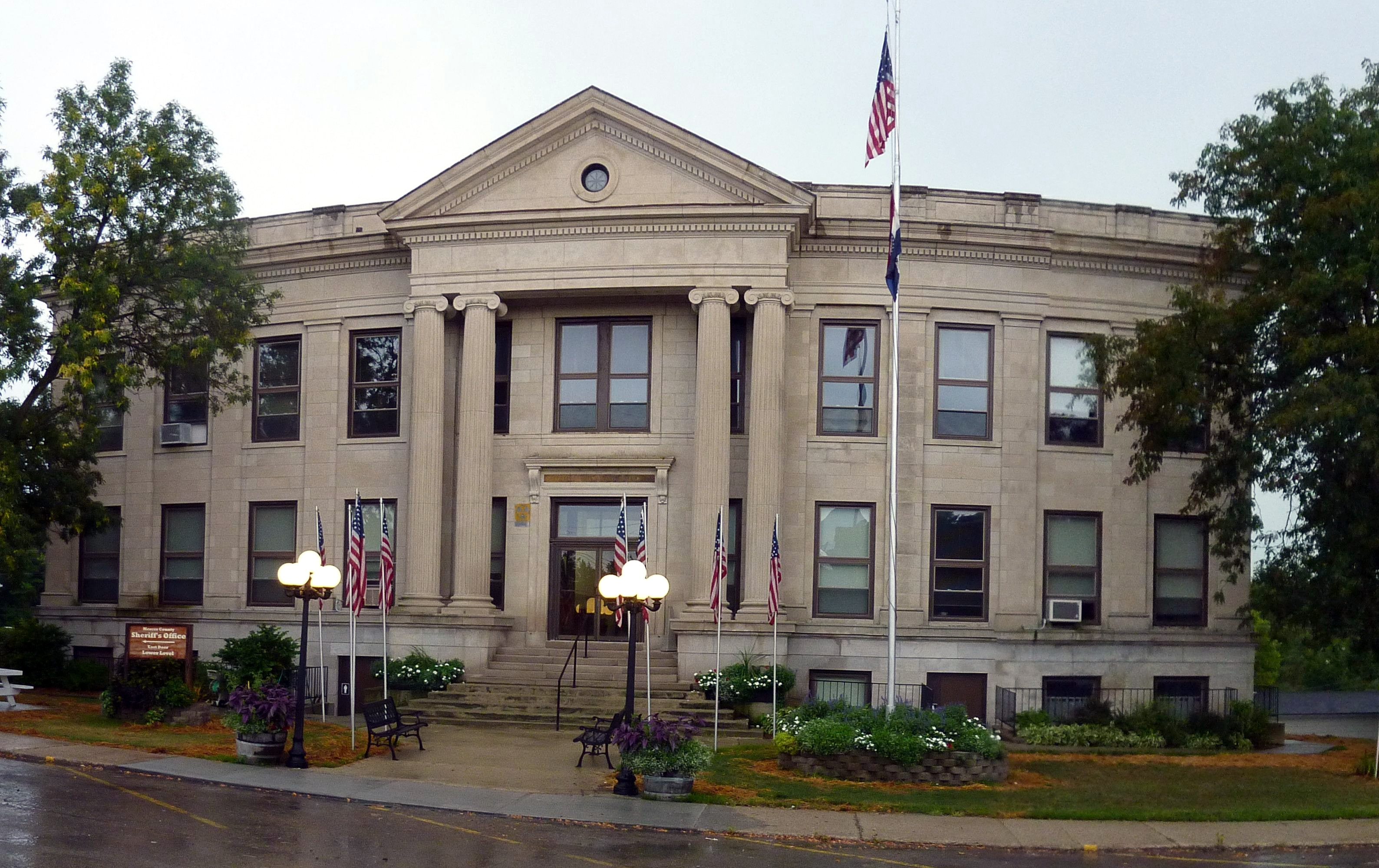 Mercer County Courthouse in Princeton, Missouri